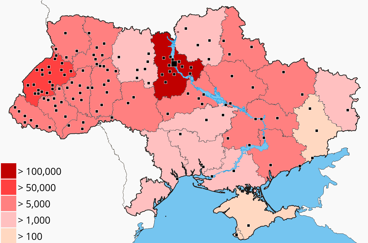 Map of Euromaidan protests in Ukraine